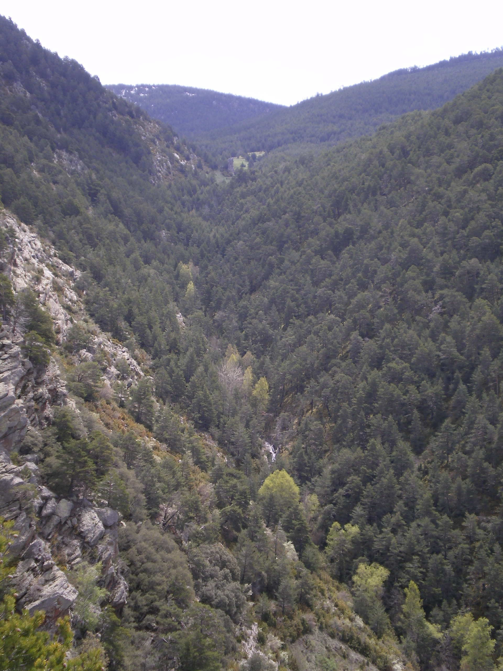 Runer's river from Rabassa/Runer view point in Andorra